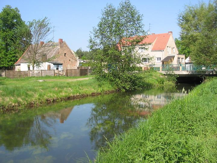 Hammerfließ in Gottow, a village (part) of the municipality Nuthe-Urstromtal in Brandenburg, Germany. The Hammerfließ is a small stream, which dewaters especially the Flemminwiesen in the Baruther-Urstromtal over the rivers Nuthe and Havel to Elbe.